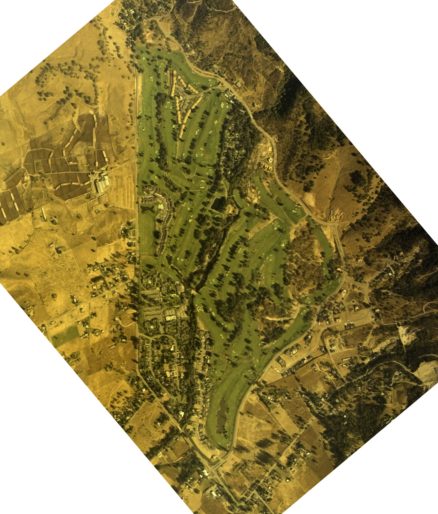 1973 aerial photograph of the Silverado Country Club, Napa California